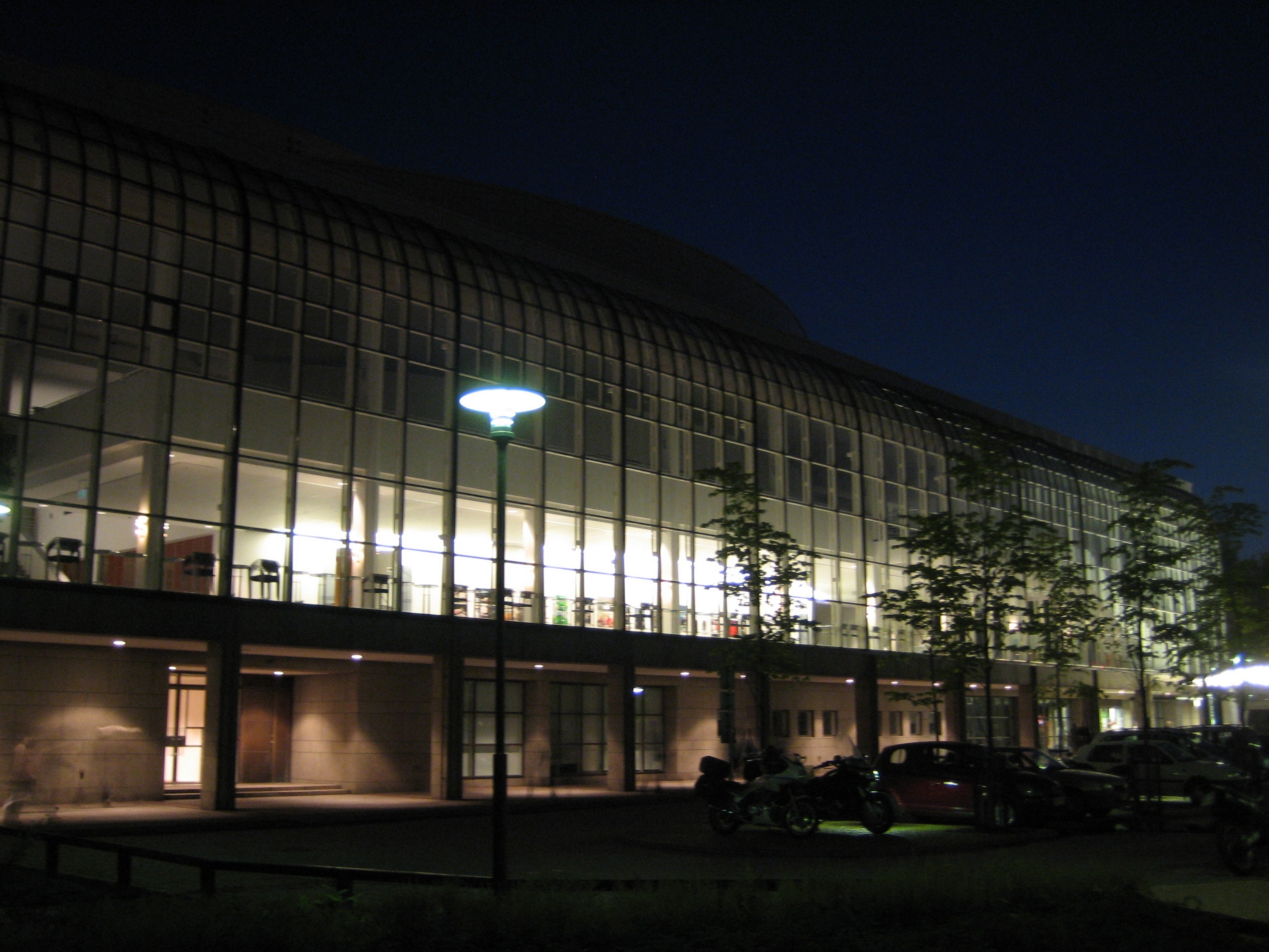 The Finnish National Opera building in Helsinki by night